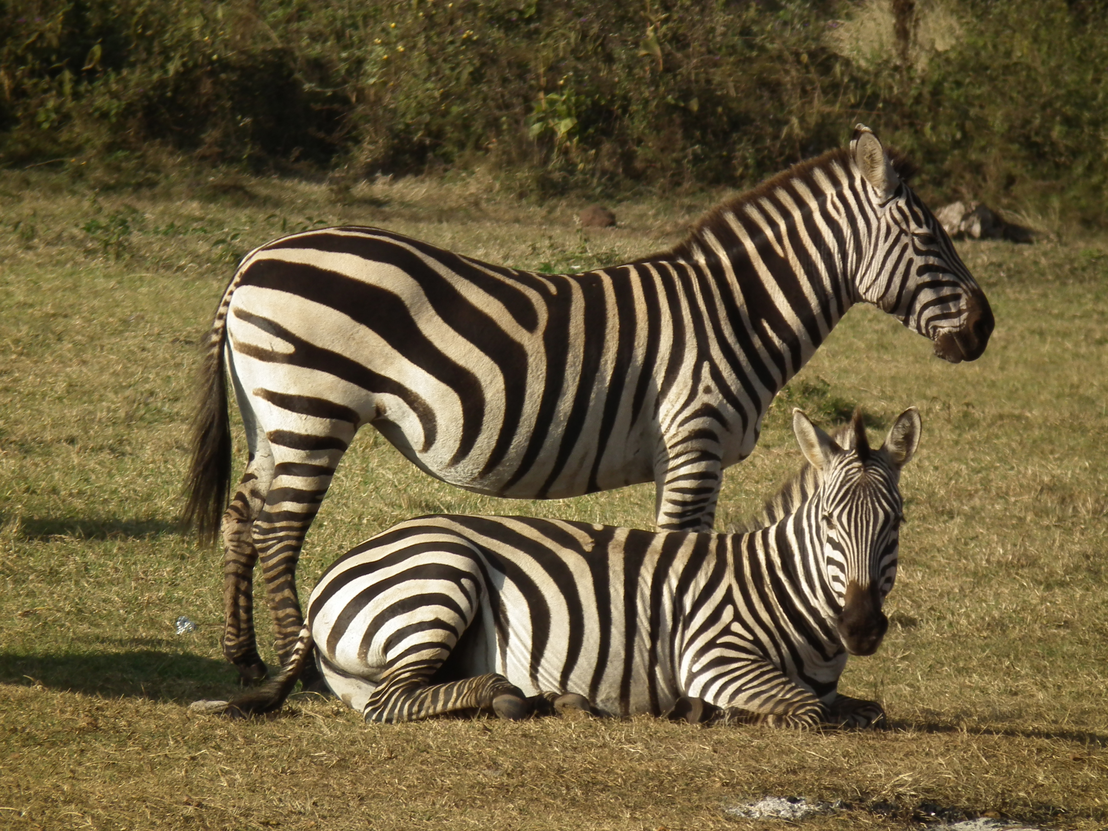 Plains zebra, Equus quagga, Northern Tanzania